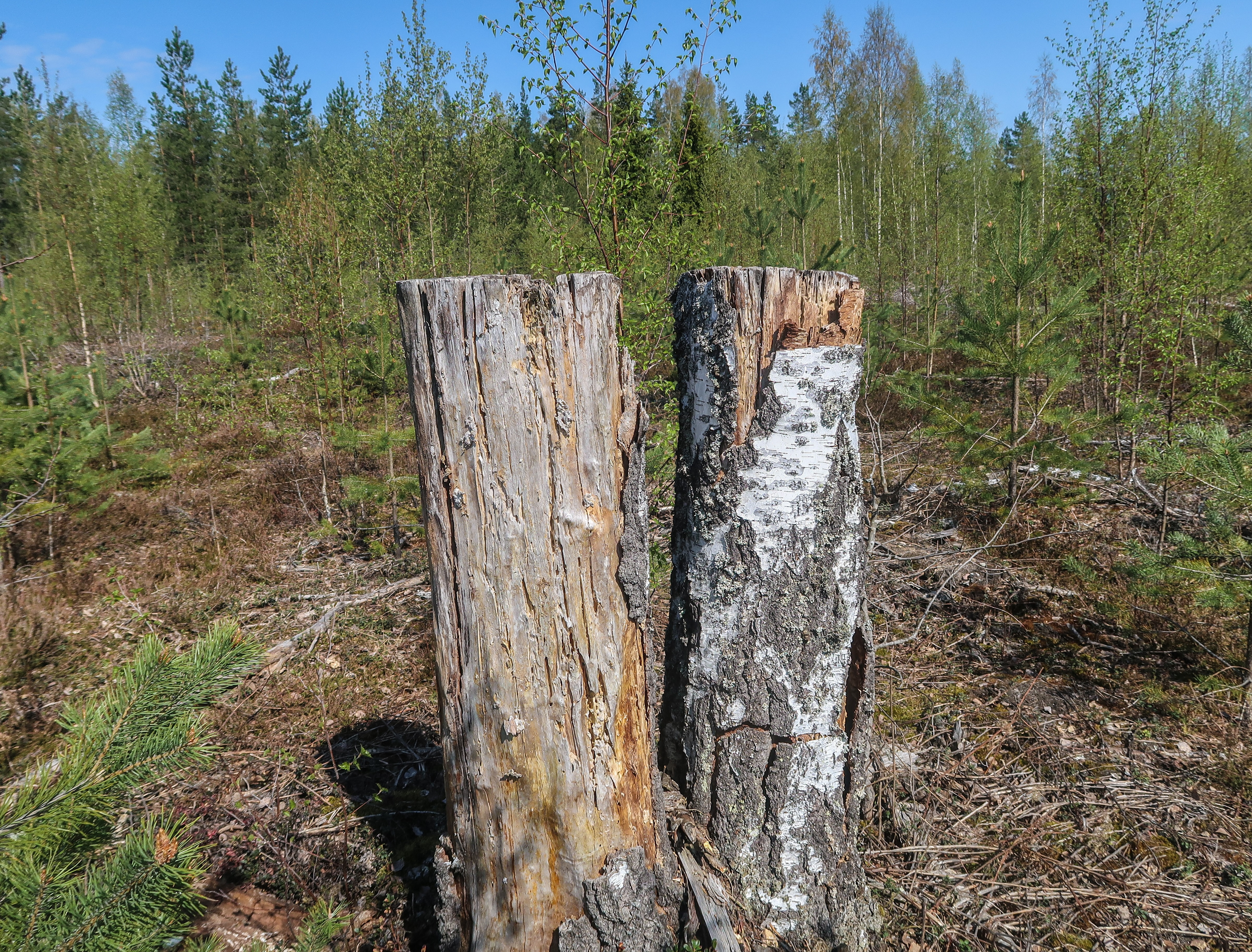 Clear cut area in Southern Finland. Stump of Betula pendula in the foreground.